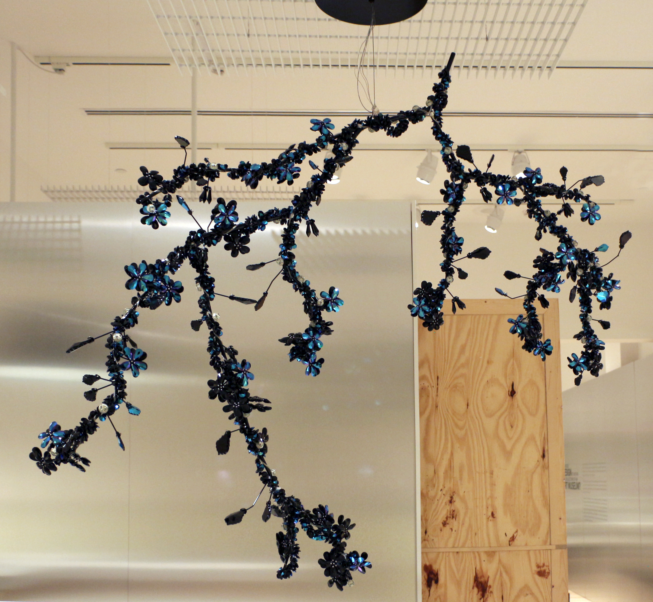 Glassware in the Indianapolis Museum of Art